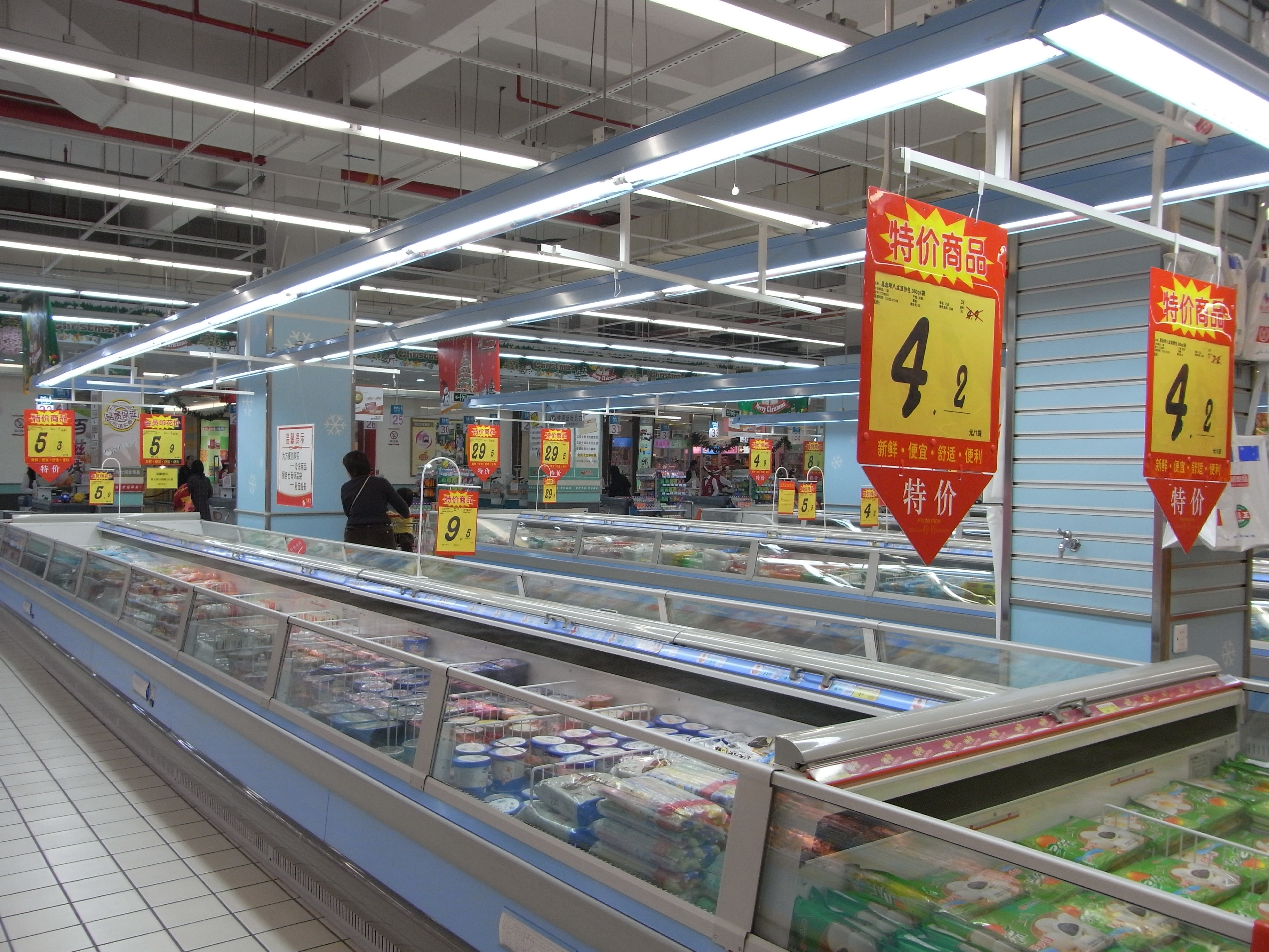 廣東省江門市新會碧桂園大潤發銷貨場